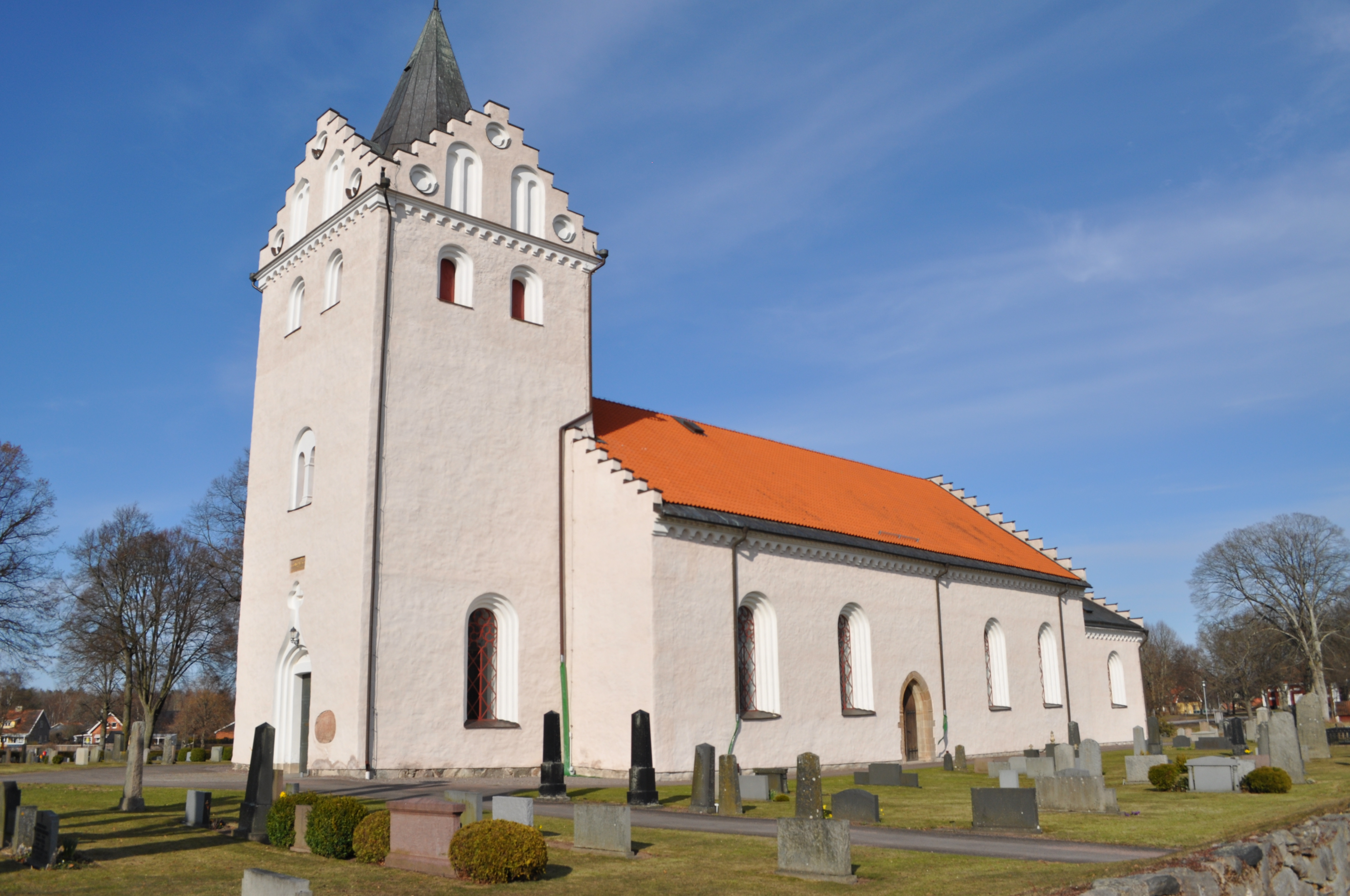 Ljungby church, Sweden. Ljungby kyrka, Sverige